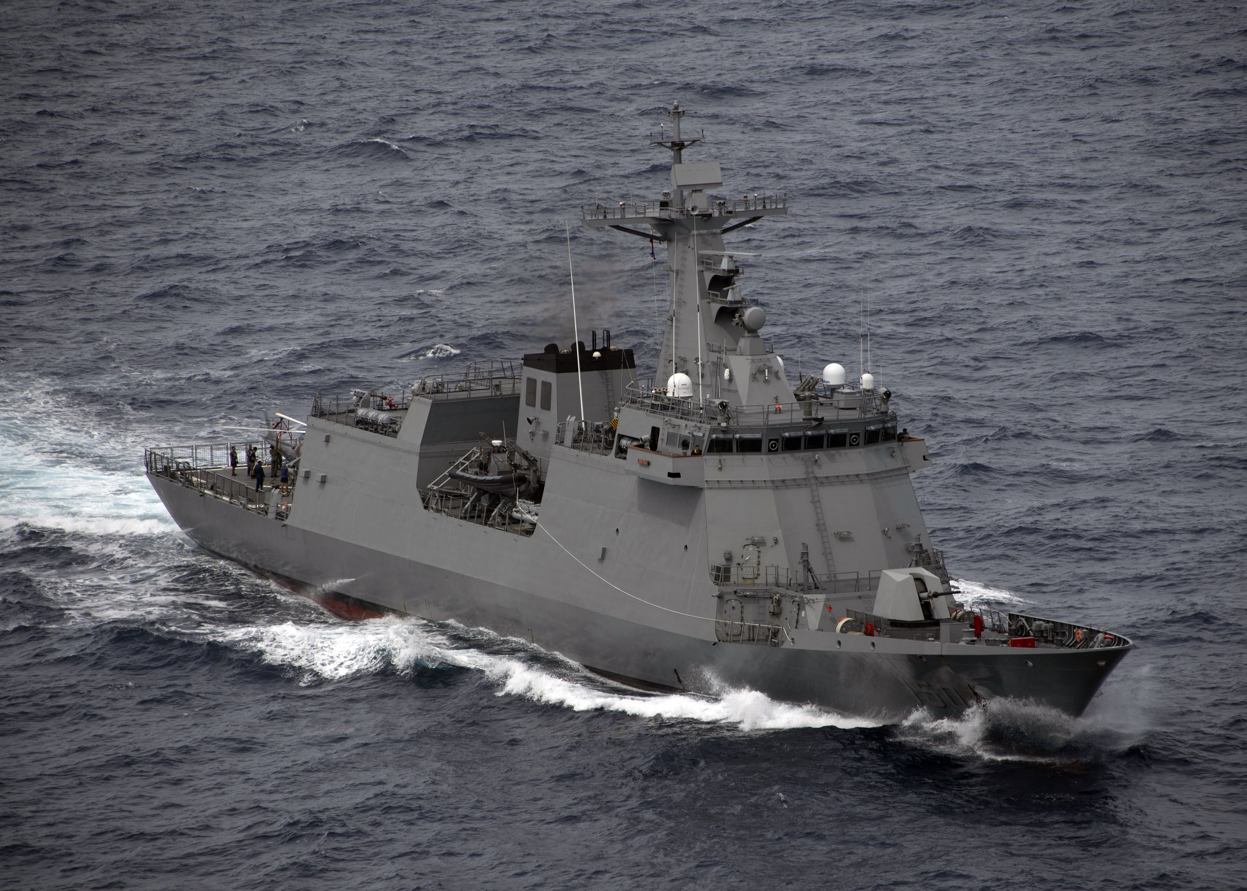 200821-N-JW440-1535 PACIFIC OCEAN (Aug. 21, 2020) Republic of the Philippines Navy ship BRP Jose Rizal (FF 150) steams in a multinational formation during a photo exercise off the coast of Hawaii during the Rim of the Pacific (RIMPAC) exercise.“Like-minded nations come together in RIMPAC in support of a free and open Indo-Pacific where all nations enjoy unfettered access to the seas and airways in accordance with international law and the United Nations Convention on the Law of the Sea (UNCLOS) upon which all nations’ economies depend,” said Adm. John C. Aquilino, Commander, U.S. Pacific Fleet. Ten nations, 22 ships, 1 submarine, and more than 5,300 personnel are participating in Exercise Rim of the Pacific from August 17 to 31 at sea around the Hawaiian Islands. RIMPAC is a biennial exercise designed to foster and sustain cooperative relationships, critical to ensuring the safety of sea lanes and security in support of a free and open Indo-Pacific region. The exercise is a unique training platform designed to enhance interoperability and strategic maritime partnerships. RIMPAC 2020 is the 27th exercise in the series that began in 1971. (U.S. Navy photo by Mass Communication Specialist 1st Class Rawad Madanat)